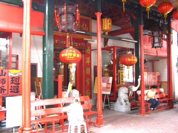 Photo of Sin Sze Si Ya Temple in Kuala Lumpur - YapAhLoyTemple002.jpg